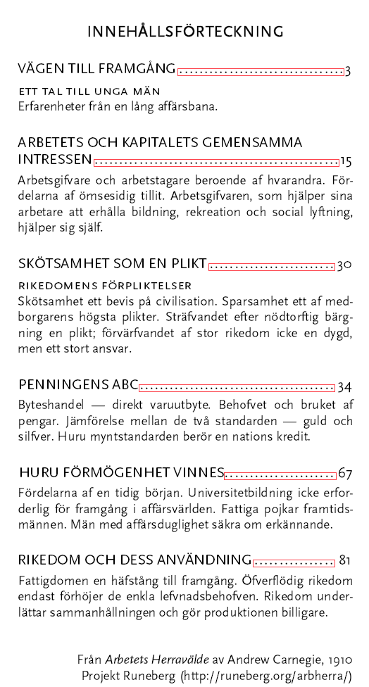 A contents page from Arbetets Herravälde by Andrew Carnegie (1910) – The dots (sw. utföringspunkter) are marked with a red rectangle. The picture itself is not under copyright. Font face used: Scala Sans